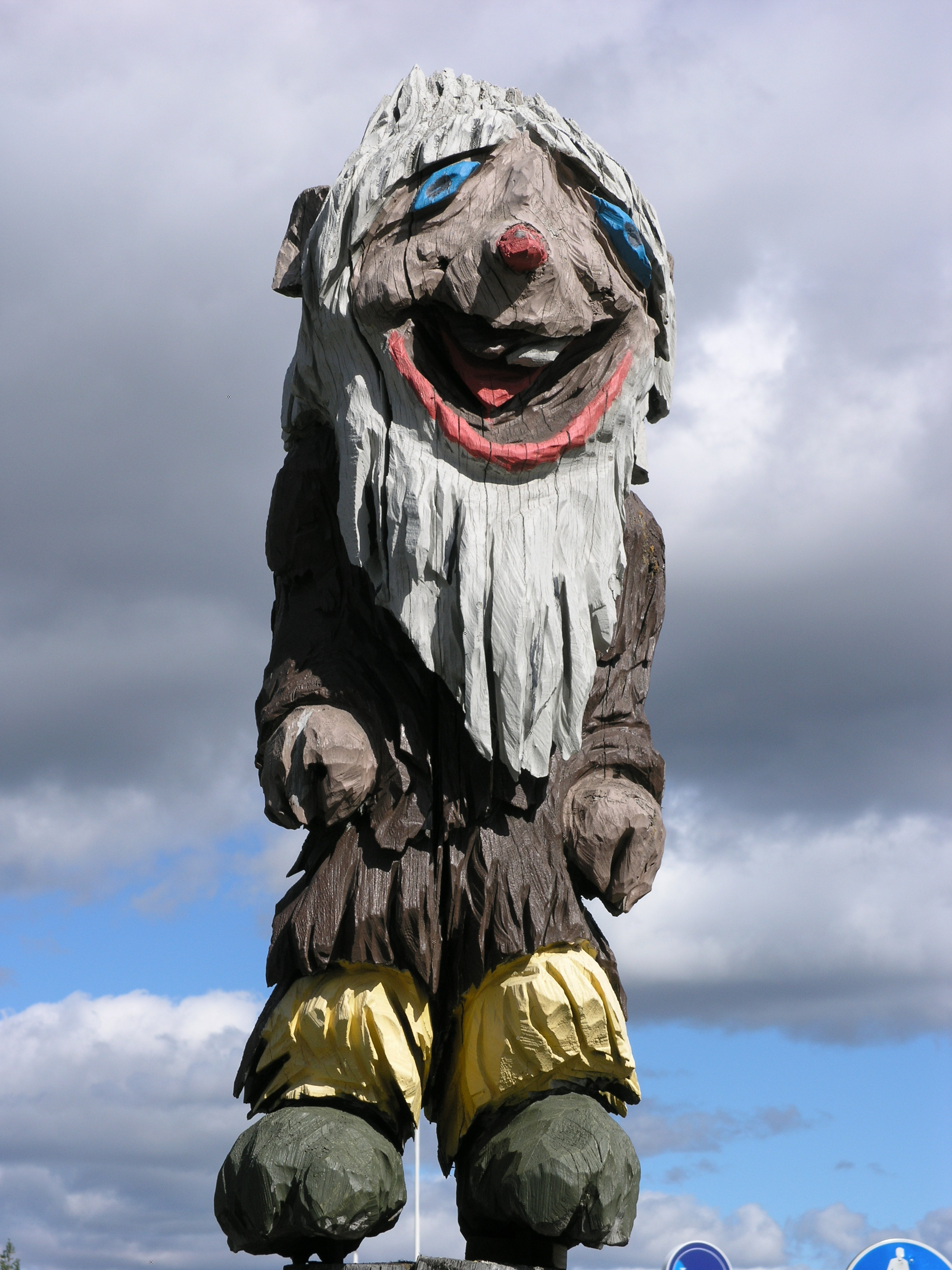 "Troll" made of wood